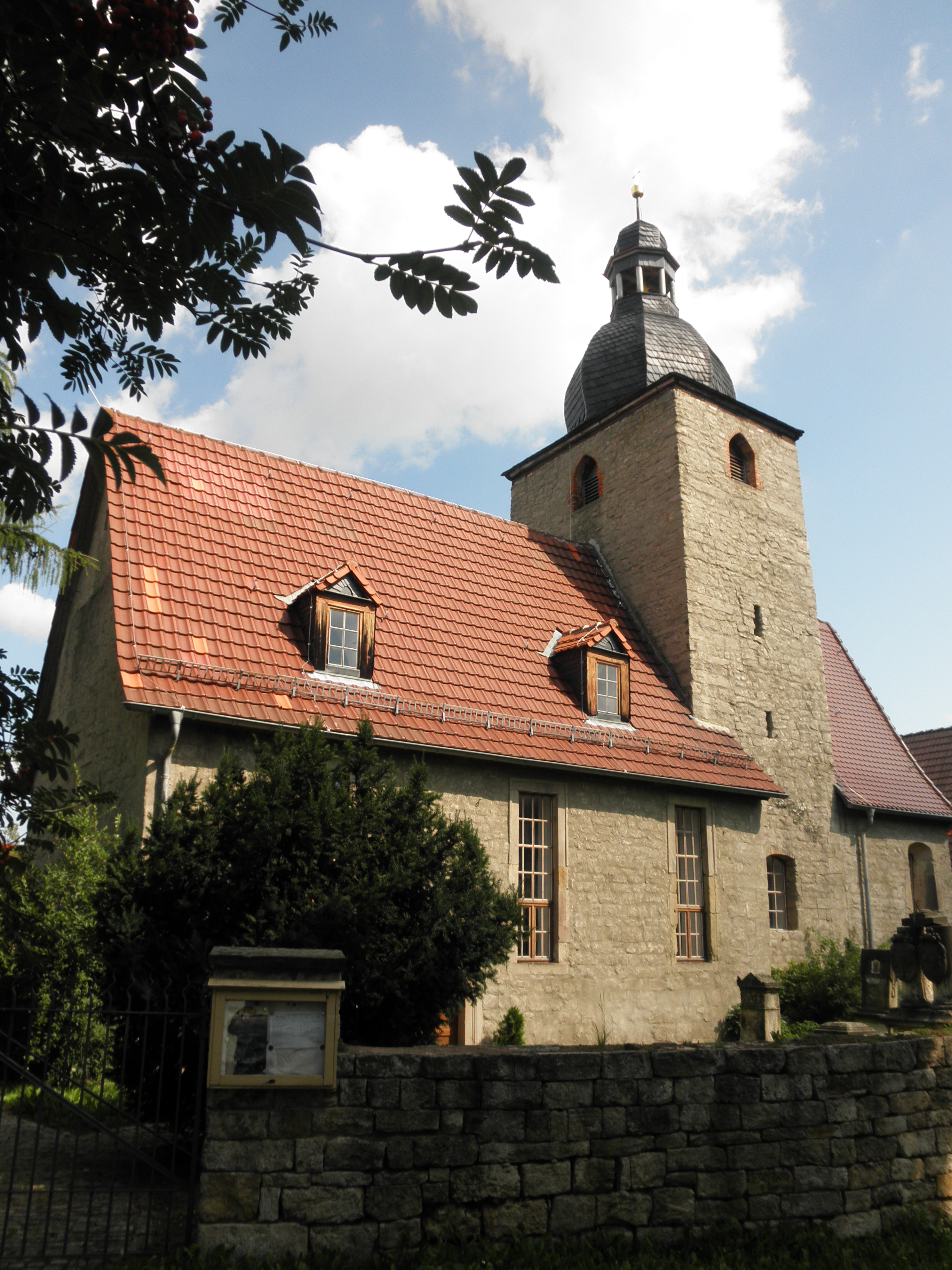 Church in Ulla (Nohra) in Thuringia)